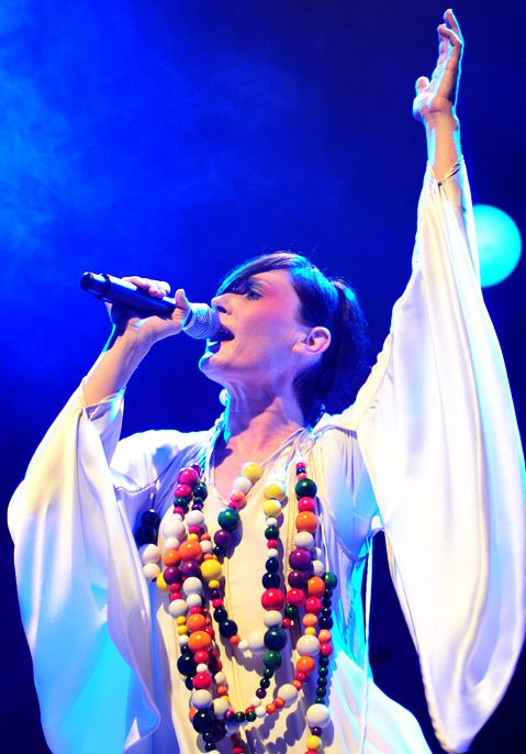 Sarah Blasko @ Astor Theatre (5/11/2010)